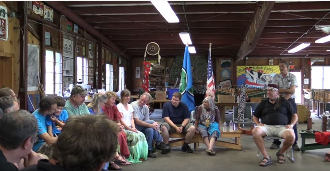 Nulhegan Abenaki annual gathering, August 2016